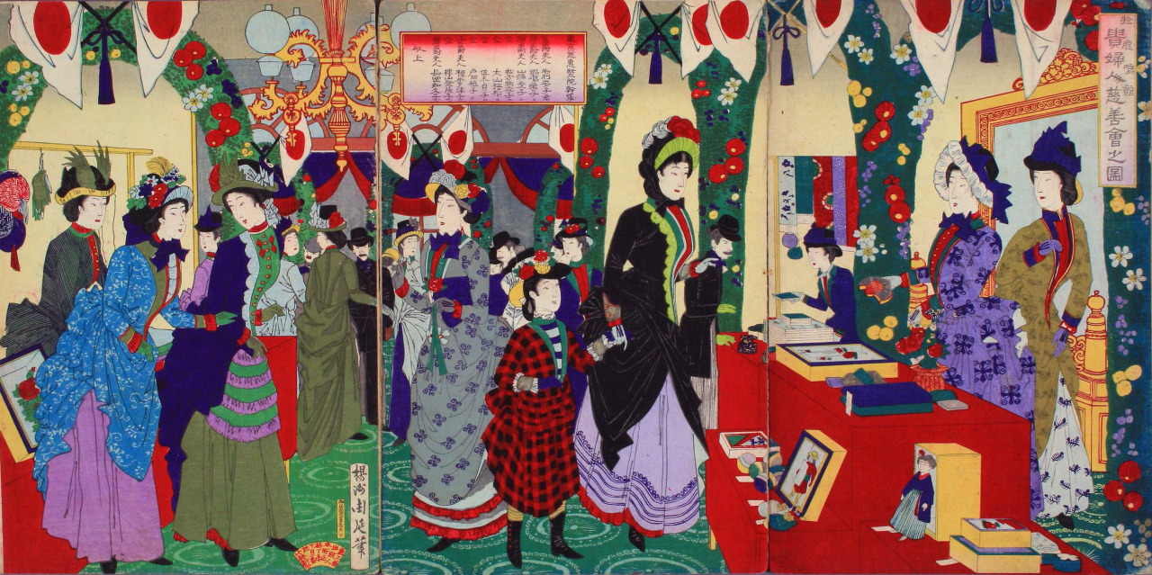 “Rokumei-kan ni okeru kifujin jizenkai no zu” (An image depicting the first charity bazaar at Rokukeikan.” From an illustrated newspaper in the mid 1887, drawn by Hashimoto aka Yoshu Chikanobu (1838-1912), published by Kobayashi Shinkichi in Tokyo. In the center of the triptich, names of support group members to the very early stage of present Jikei University School of Medicine where they wished to open a nursing school.